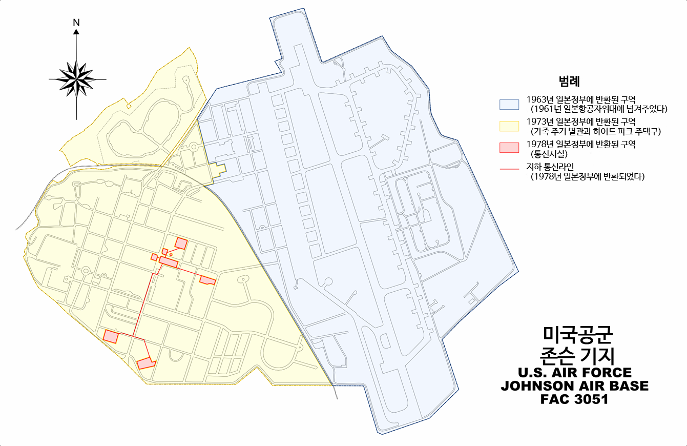 USAF Johnson Air Base, Saitama,Japan